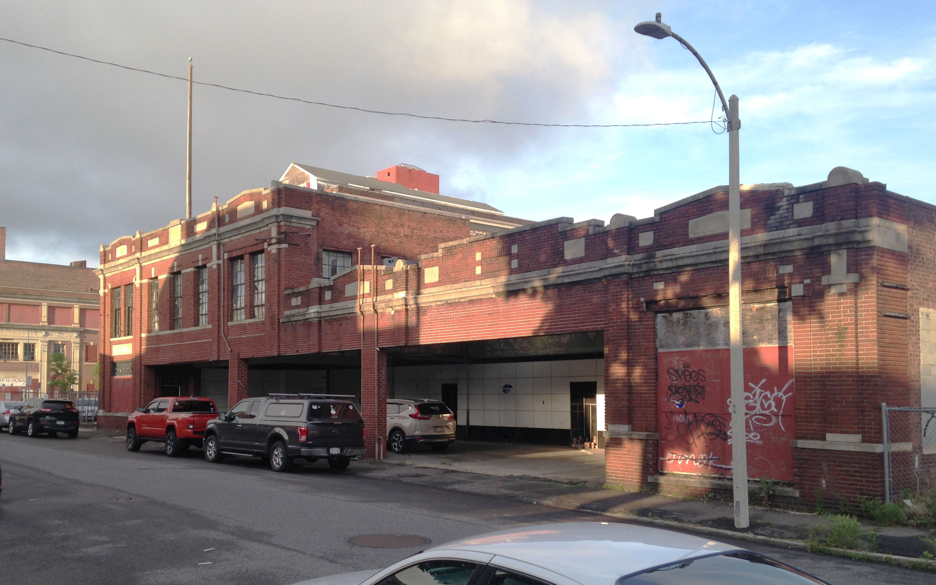 The former garage of William P. Yoerg, a mayor of Holyoke, Massachusetts and one of the Holyoke Housing Authority's first administrators. The building, designed by George P. B. Alderman and constructed in 1915, was home to his business from then until 1954.